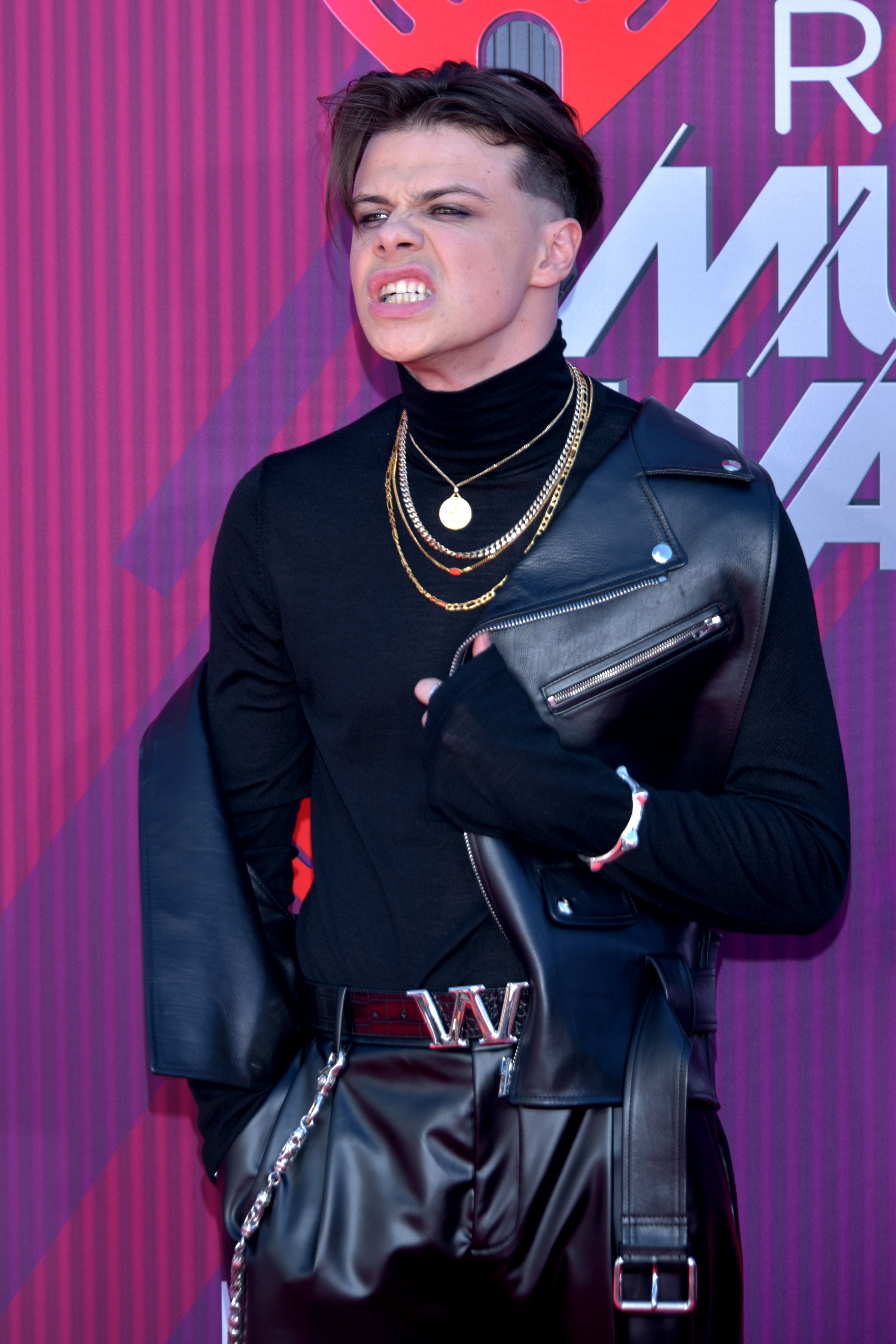 Yungblud at the 2019 iHeartRadio Music Awards in Los Angeles California